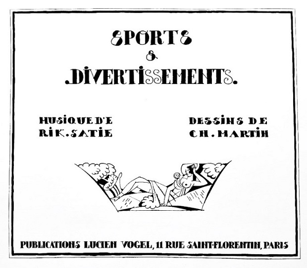 Cropped, adjusted, lower resolution of image